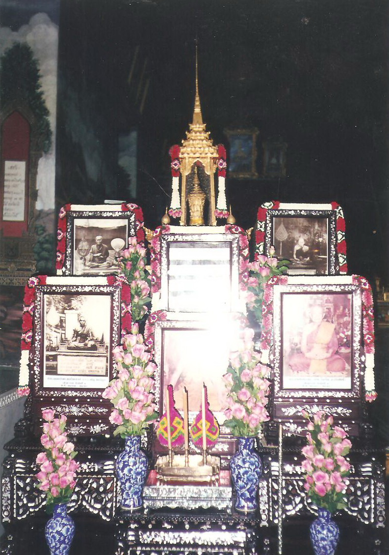 Somdej Phra Buddhacarya (Toh Brahmaramsi)Location: Wat Rakhang Thailand.